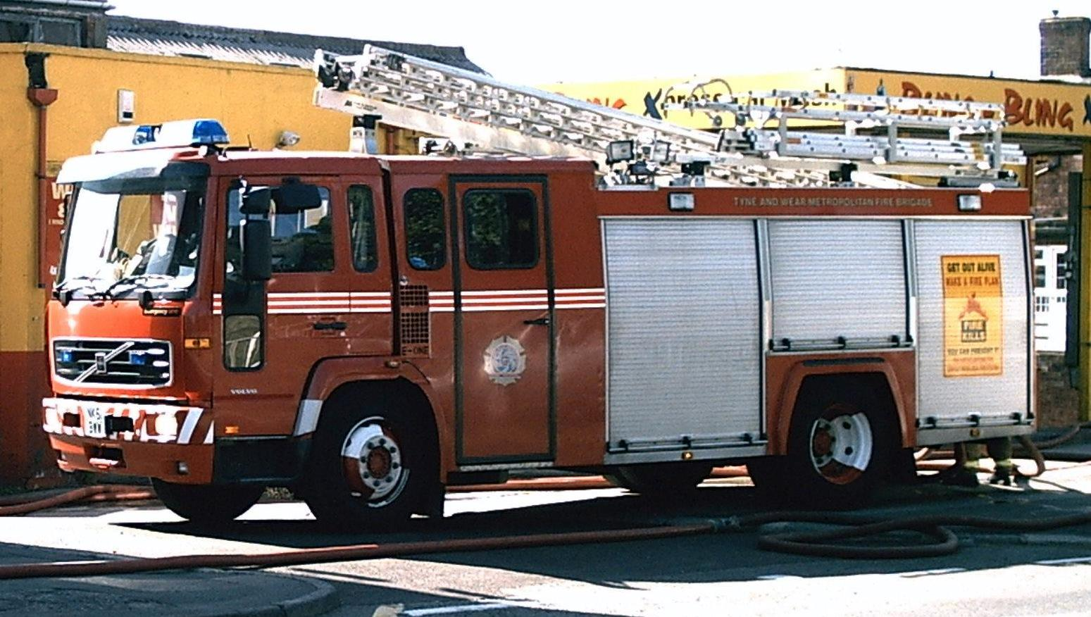 Tyne and Wear Fire Engine